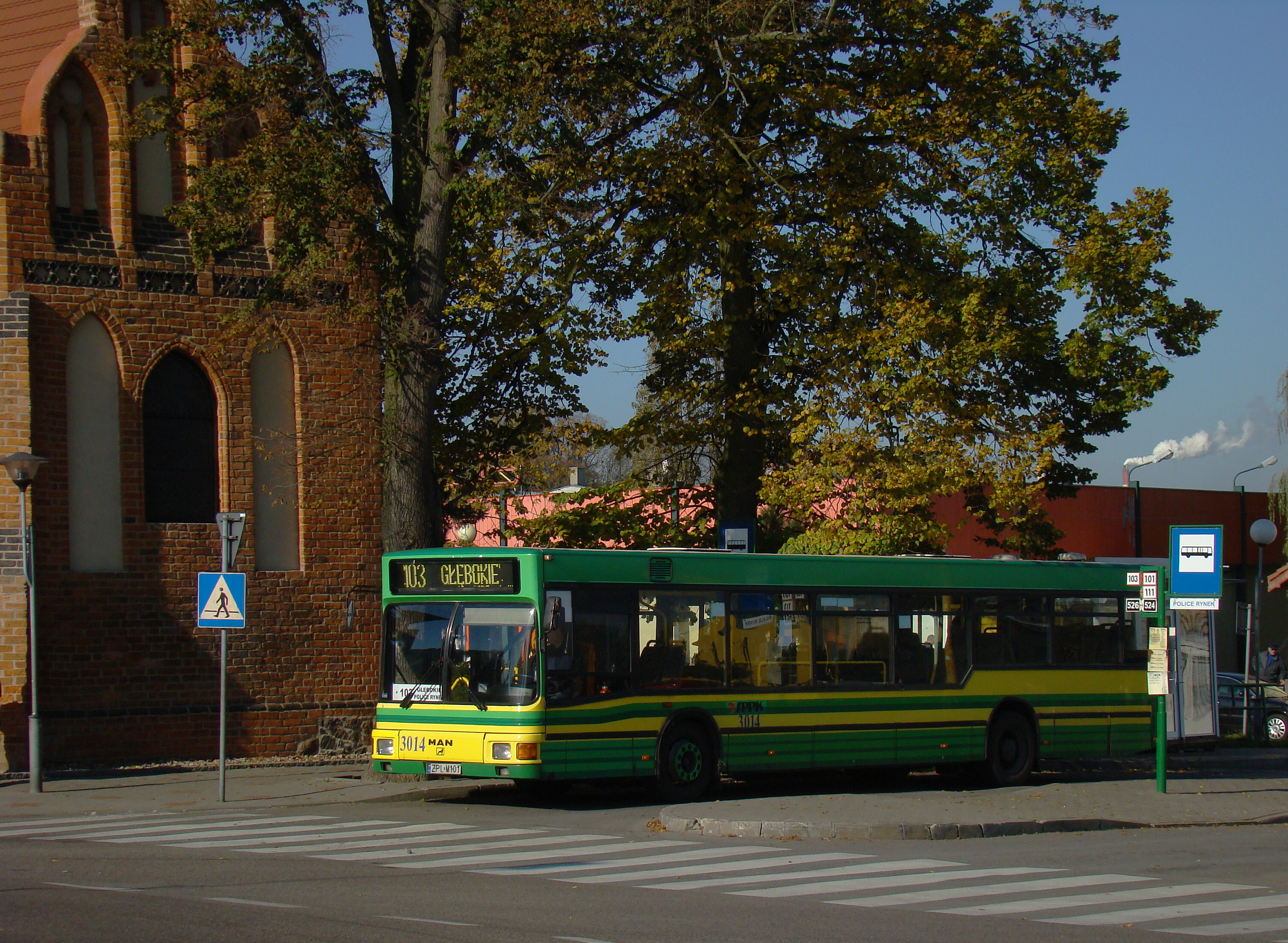 MAN NL 222 (#3014) owned by SPPK in Police, Poland. Built 1999, SPPK operator.